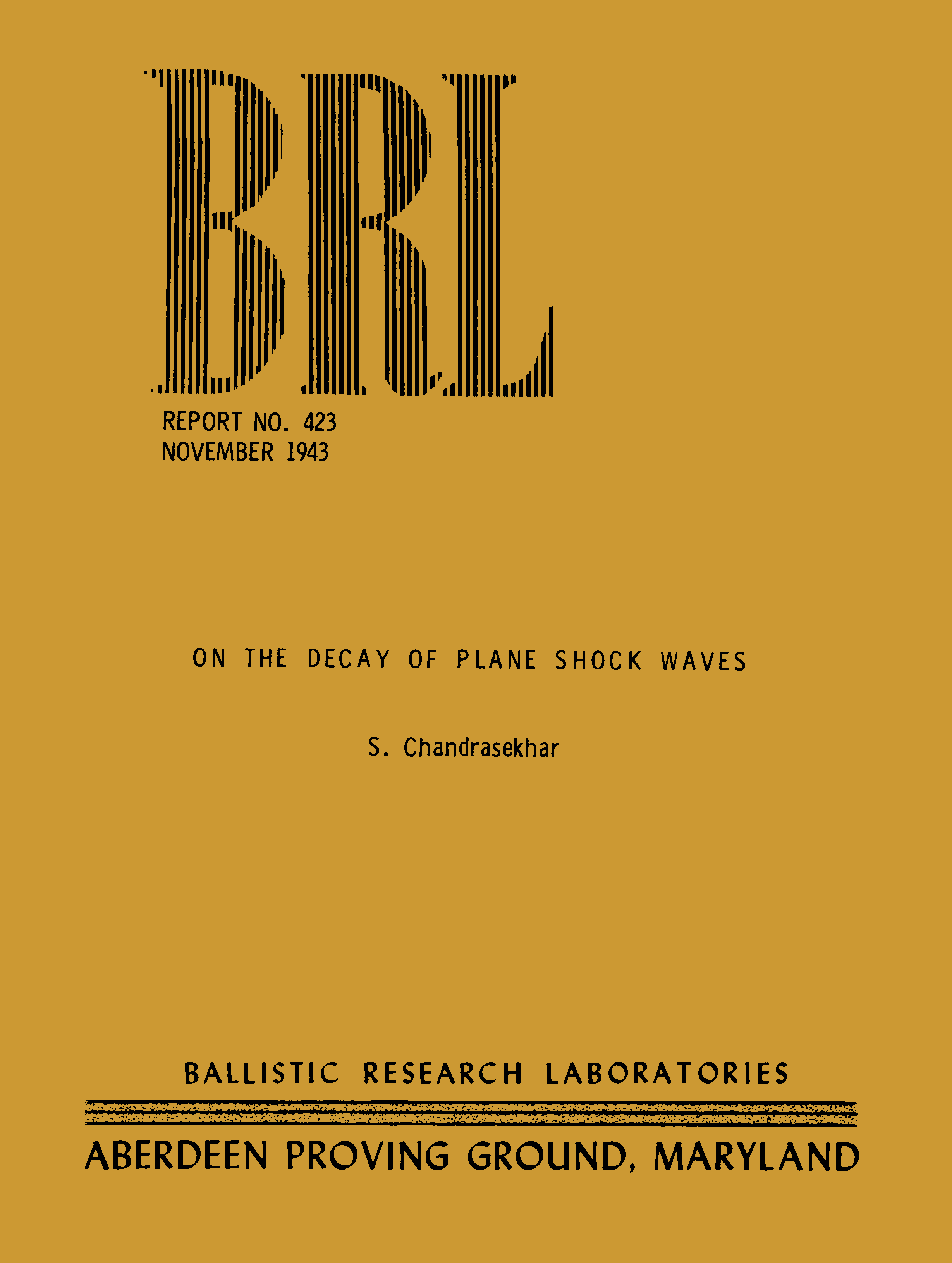 Cover of On the decay of plane shock waves by S. Chandrasekhar.